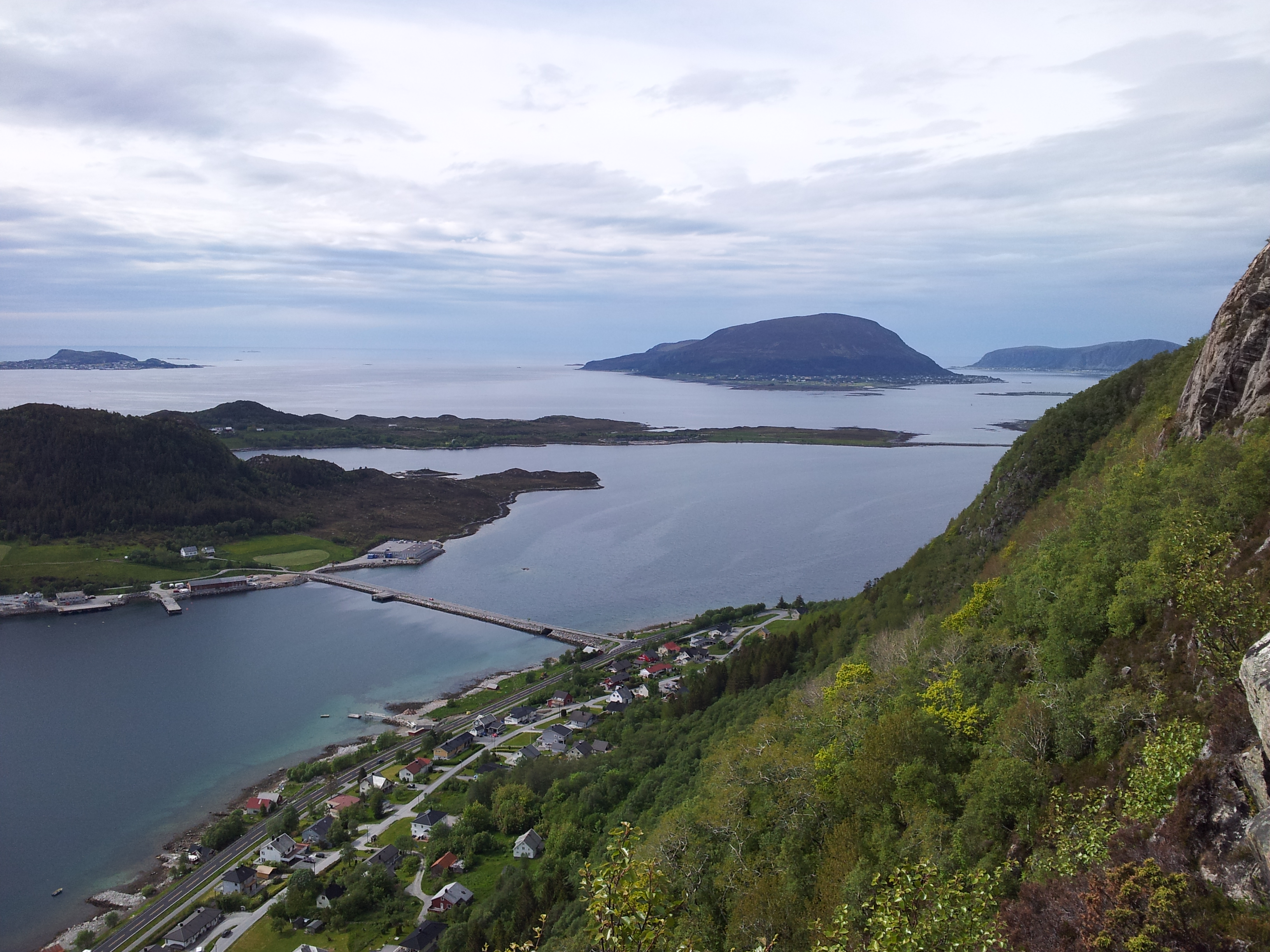 Søvik